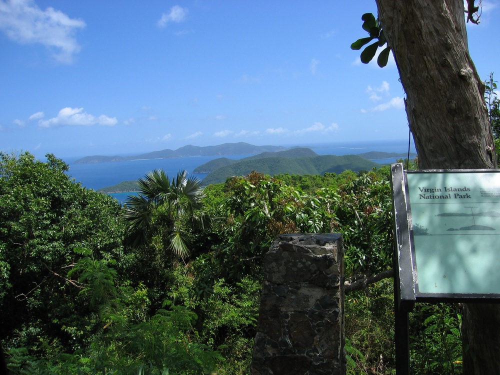 Virgin Islands National Park; looking north from the overlook on Centerline Road (island route 10).